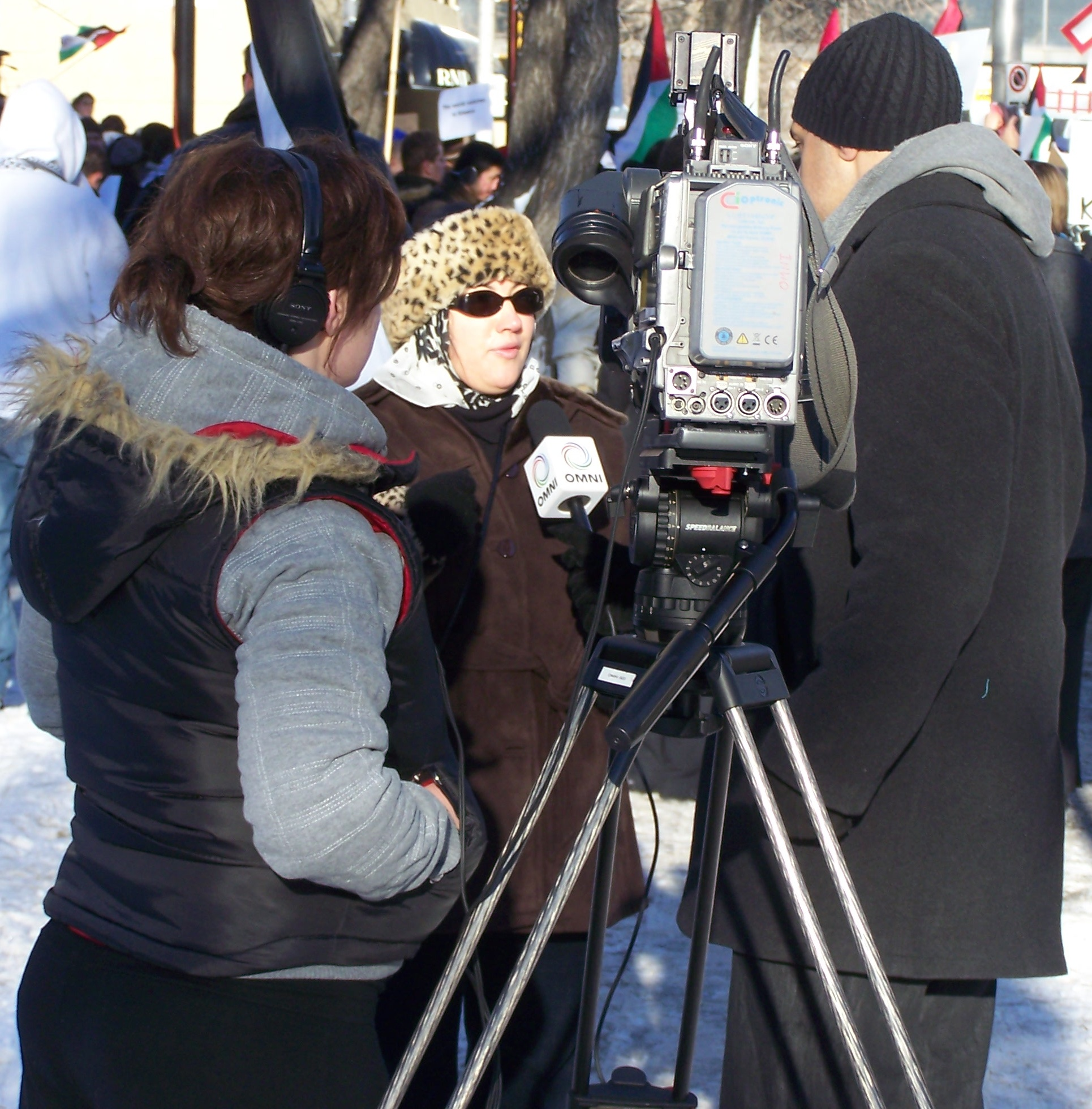 An OMNI Calgary (CJCO-TV) reporter interviews a protester at an pro-Gaza anti-Israel rally held along MacLeod Trail by Olympic Plaza, across from City Hall in Calgary, Alberta, Canada.